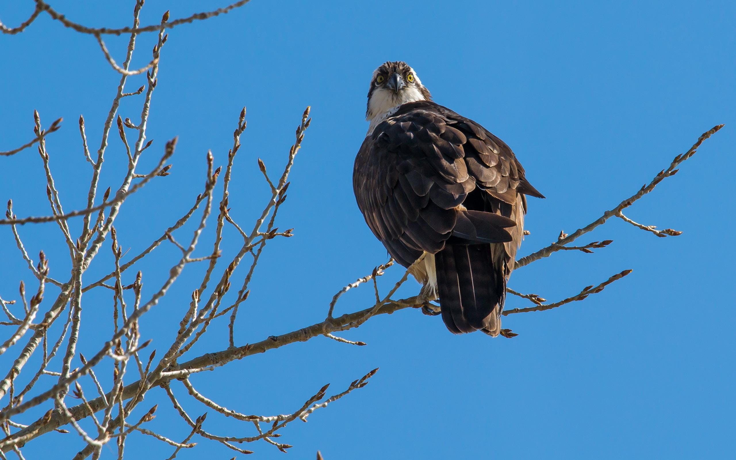 Pandion haliaetus in Azerbaijan.